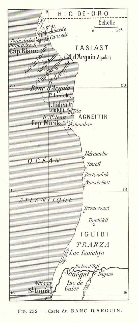 Subject: Africa--Maps Geographic Subject: Africa Tag: Coasts